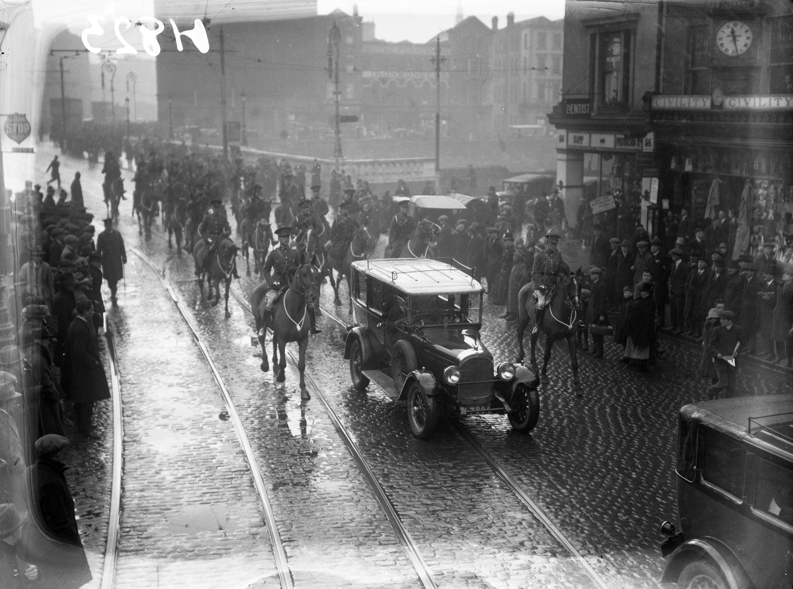 This is the procession for James MacNeill, newly sworn in Governor General of the Irish Free State. Our catalogue had this as Westmoreland Street, Dublin. I'd be happier that this is actually the head of the procession on O'Connell Street, having just passed over O'Connell Bridge. Would you agree? This coverage from Thursday 2 February's Irish Independent outlines the ceremonial sequence: "Mr. James MacNeill was, yesterday, installed as Governor-General of the Saorstat in succession to Mr. T. M. Healy. The ceremony, which was dignified and impressive, took place at Leinster House in the presence of a distinguished gathering. The new Governor-General was sworn in by the Chief Justice, and after the ceremony he laid a wreath on the Griffith-Collins cenotaph in Leinster Lawn. His Excellency, accompanied by a cavalry escort, was then driven through the city to his official residence in the Phoenix Park." In typical fashion (if you'll pardon the pun), the Irish Independent writer dismisses Mr. MacNeill's attire with two words: "morning dress", but we are treated to great detail on Mrs. MacNeill, who "wore a clipped lamb coat trimmed with fox fur and a brown felt hat to match the fur. Her dress was also brown, trimmed at the neck with soft yellow, and she wore shooes and stockings to match the dress." The MacNeills had been staying at the Shelbourne Hotel and they left at 10.45 to drive to Leinster House. It must have been a very swift ceremony, as the Chief Justice administered the Oath at 11; they were crossing O'Connell Bridge at 11.28 (according to the clock in this photo) and the Irish Independent said they reached the Vice-Regal Lodge at 12.10. Date: Wednesday, 1 February 1928 NLI Ref.: INDH823